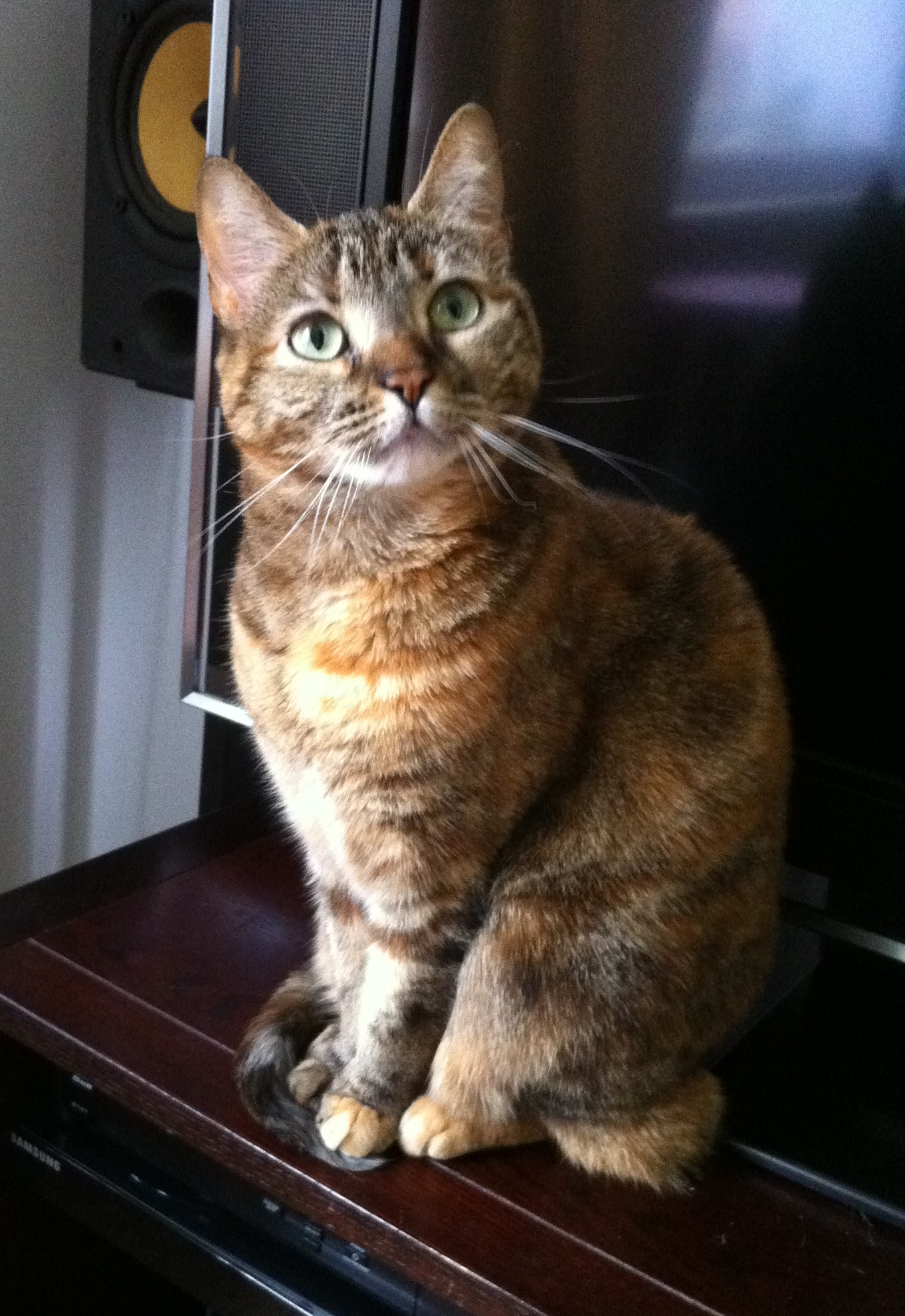 A photo of a domestic shorthair tortie-tabby cat.